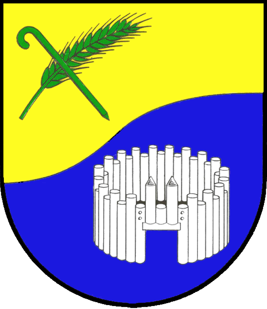 Coat of arms of the municipality Kuden in Schleswig-Holstein, Germany.